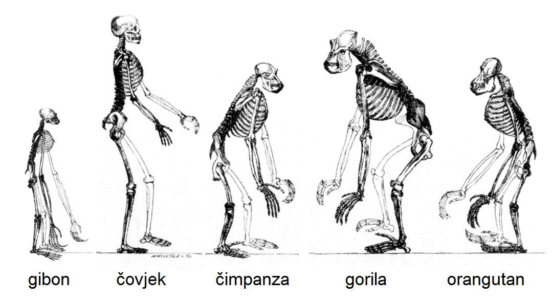 Modification of Image:Huxley - Mans Place in Nature.jpg Gibbon now shown at natural size.